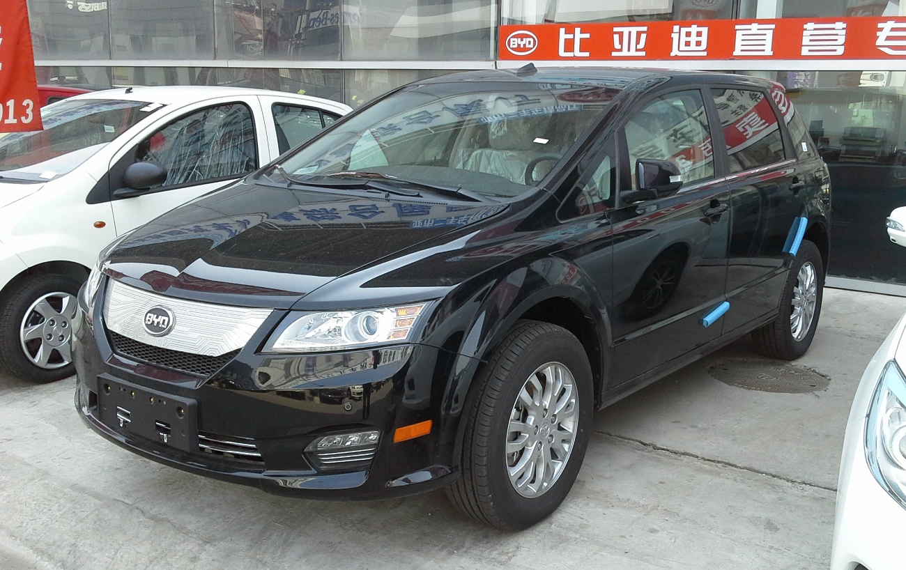 BYD e6 photographed in Beijing, China.